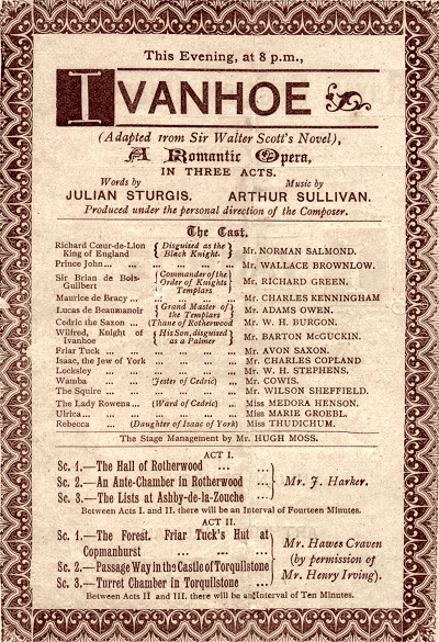 Scan of original programme booklet for Richard D'Oyly Carte's production of Ivanhoe, 1891. Public domain.